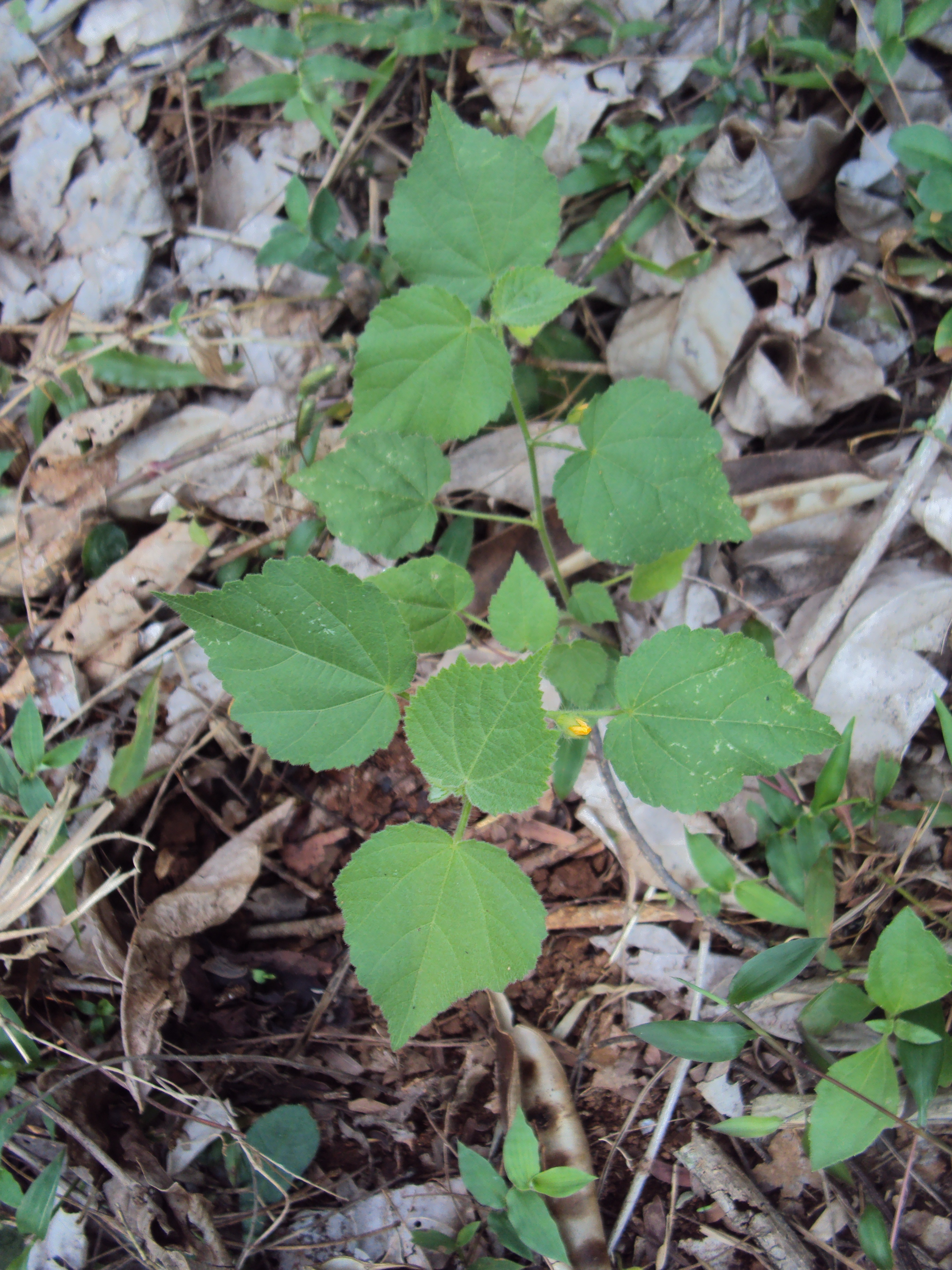 Sida cordifolia